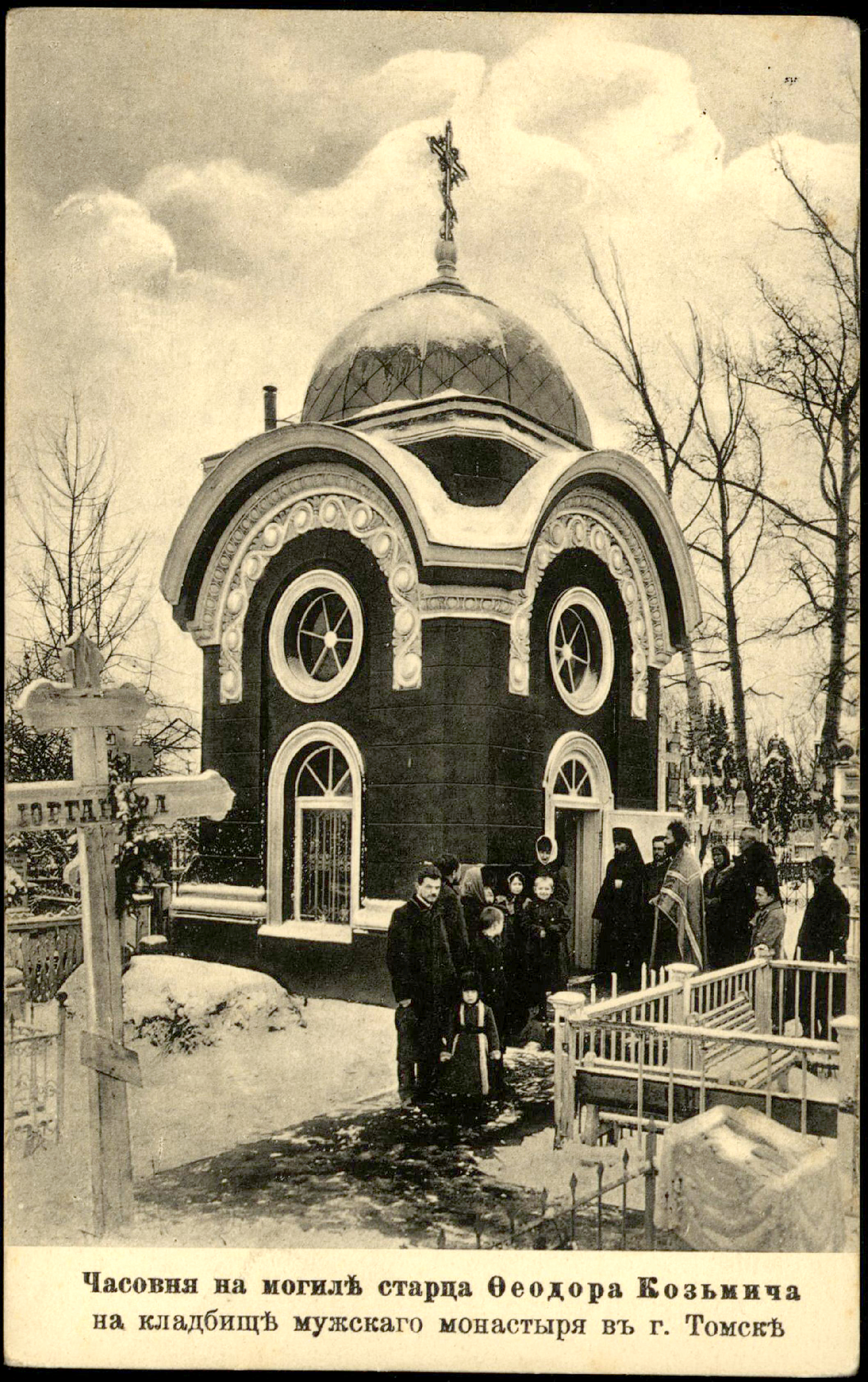 Chapel of st Feodor Kuzmich in Tomsk